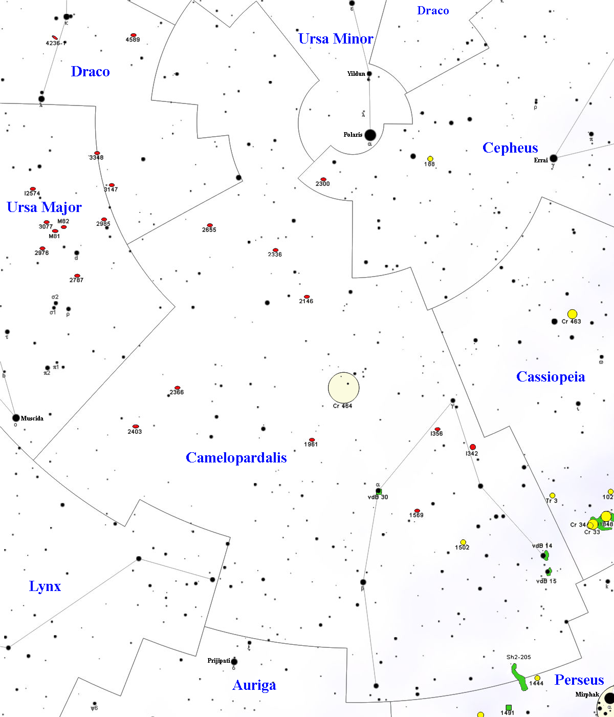 Camelopardalis constellation map, with DSOs